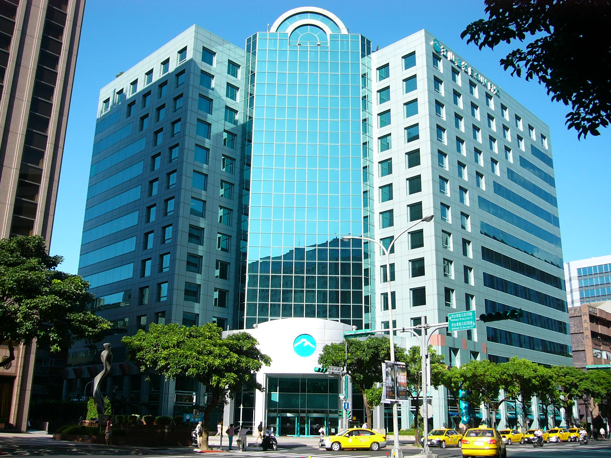 E.SUN Financial Building front view.中文（台灣）: 玉山金融大樓正面。